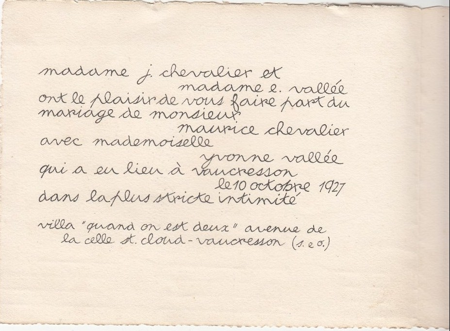 This is Maurice Chevalier's Wedding Announcement